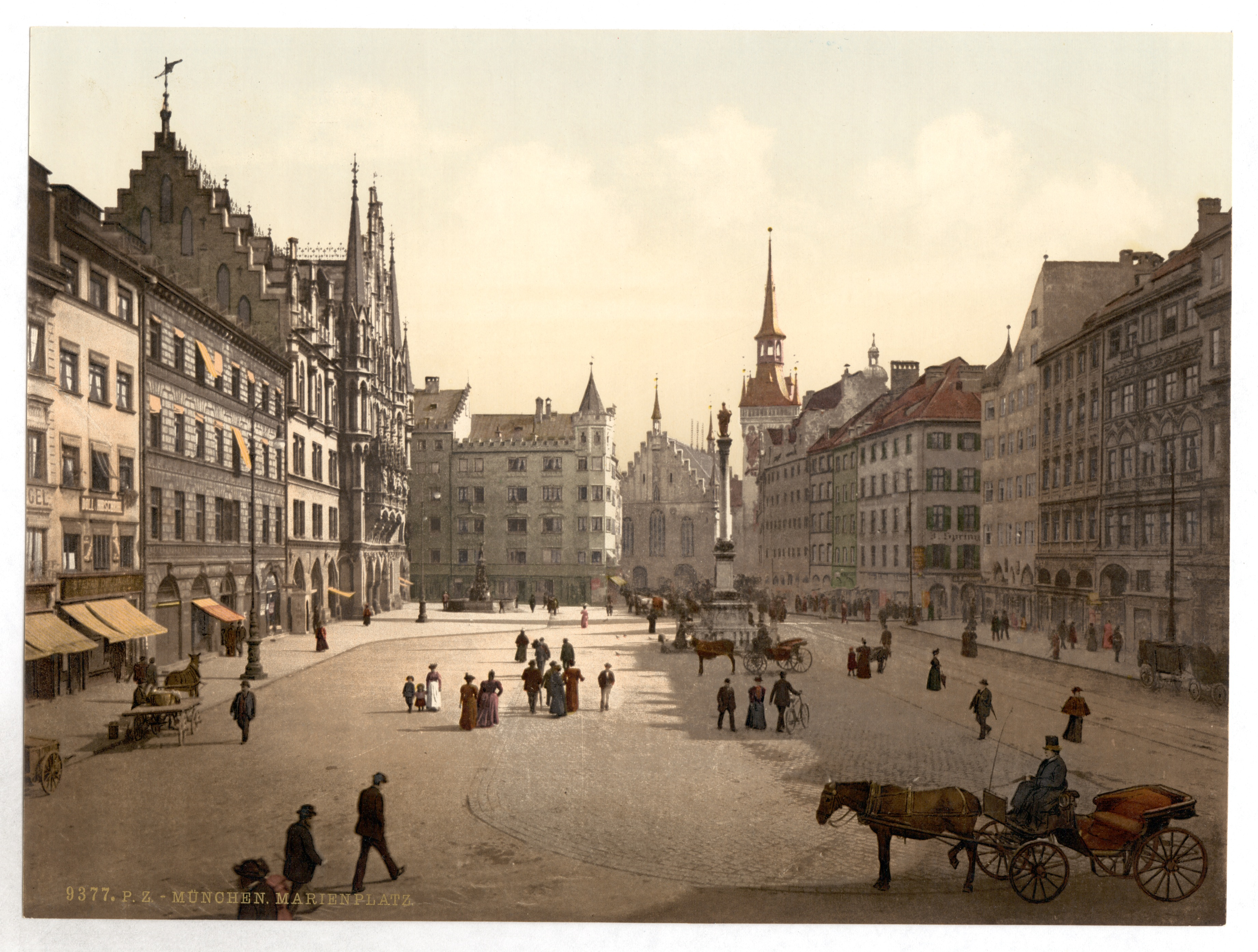 Title from the Detroit Publishing Co., catalogue J-foreign section. Detroit, Mich. : Detroit Photographic Company, 1905.; Print no. "9377".; Forms part of: Views of Germany in the Photochrom print collection.